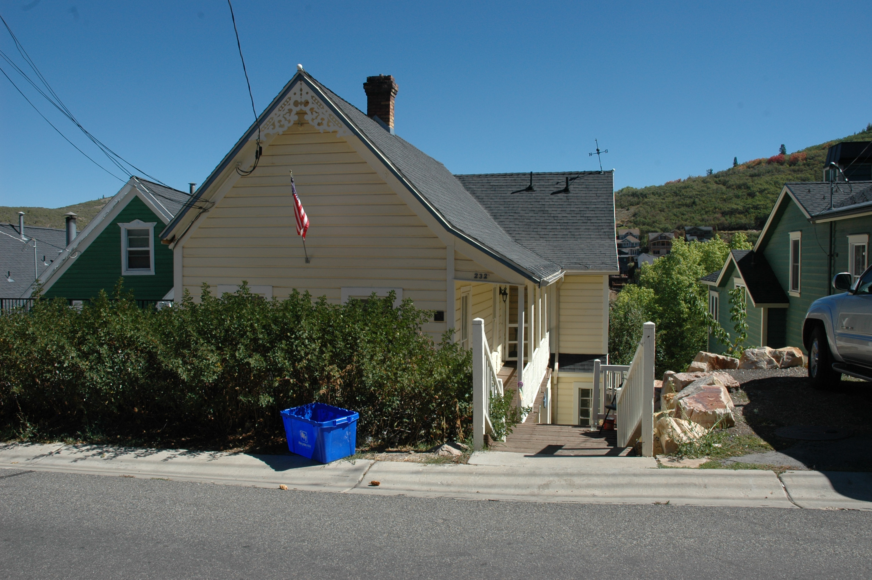 The IOOF Relief Home, a historic building in Park City, Utah, United States.